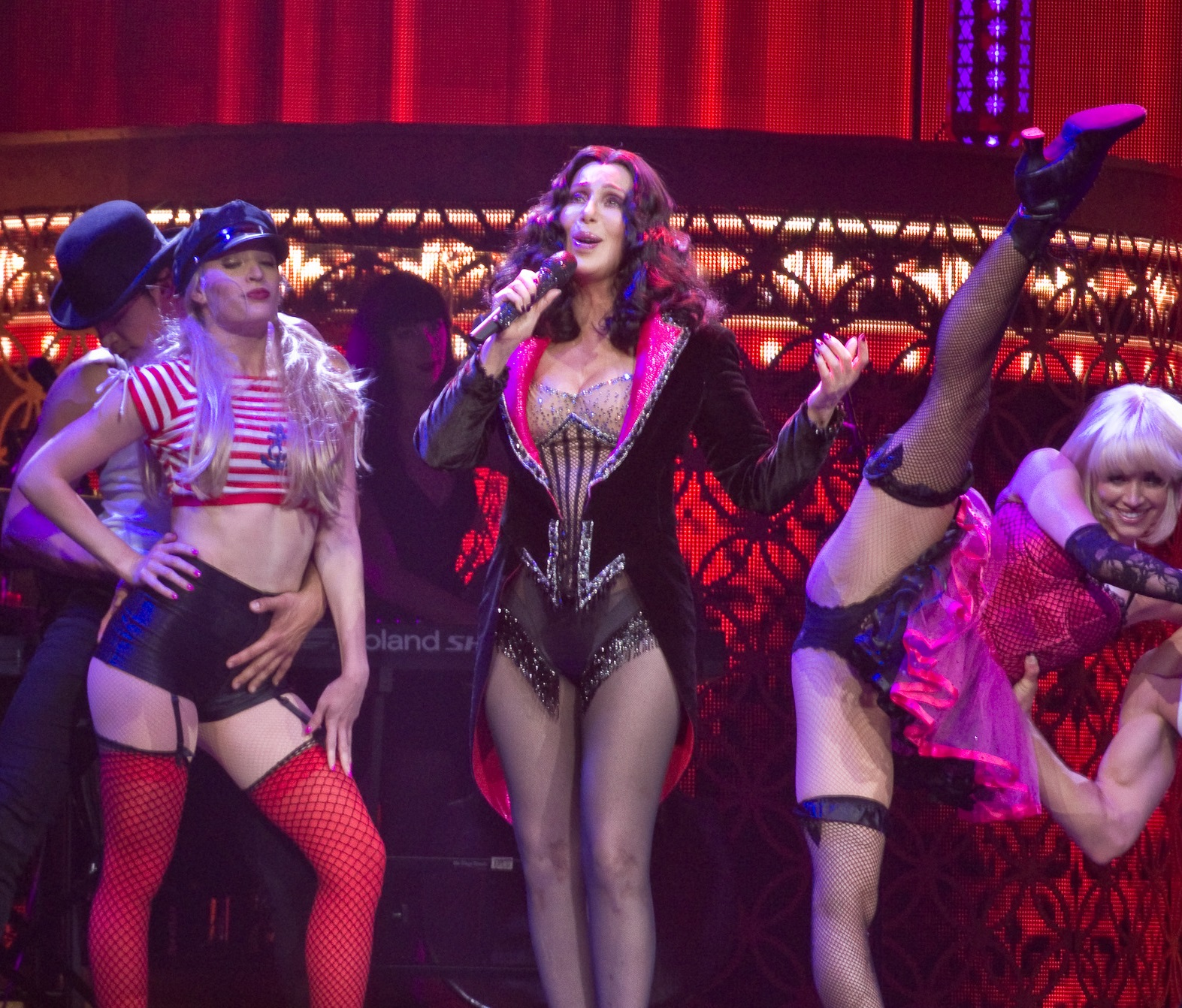 Cher performing on her Dressed to Kill Tour in 2014